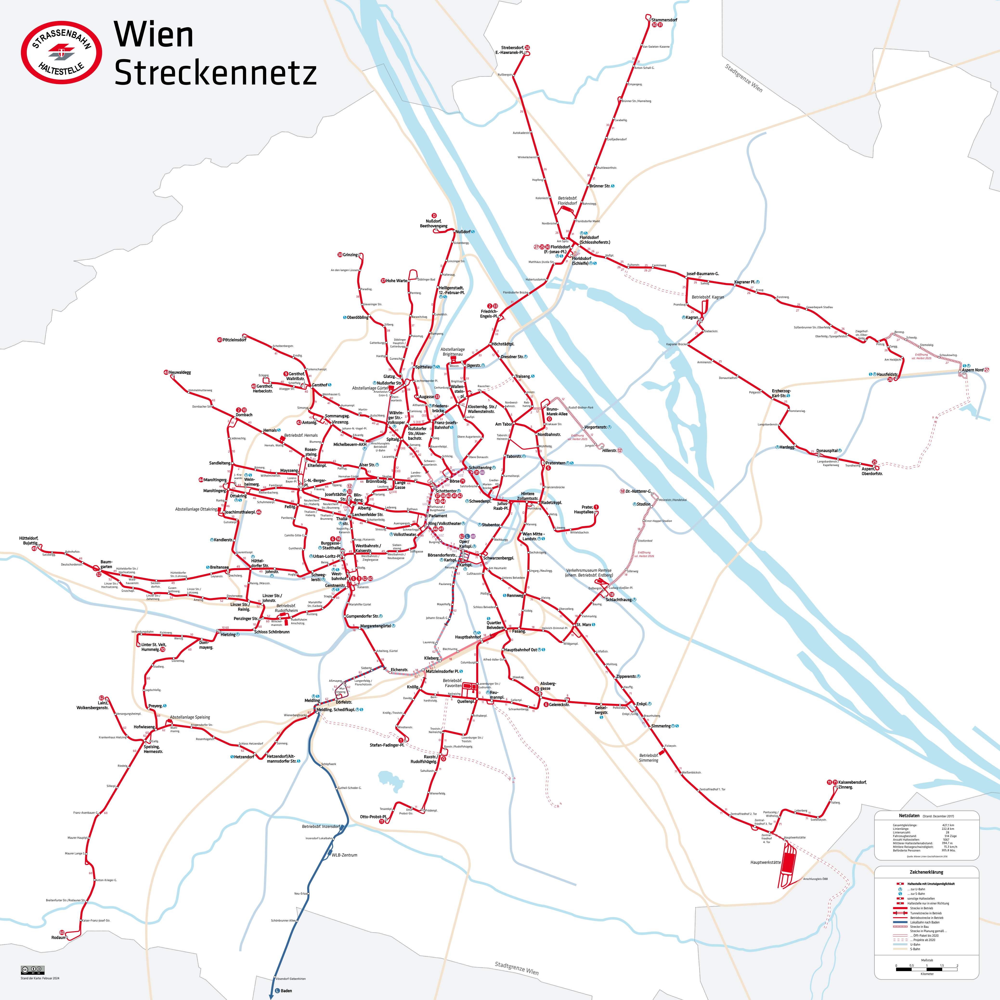 Vienna streetcar network